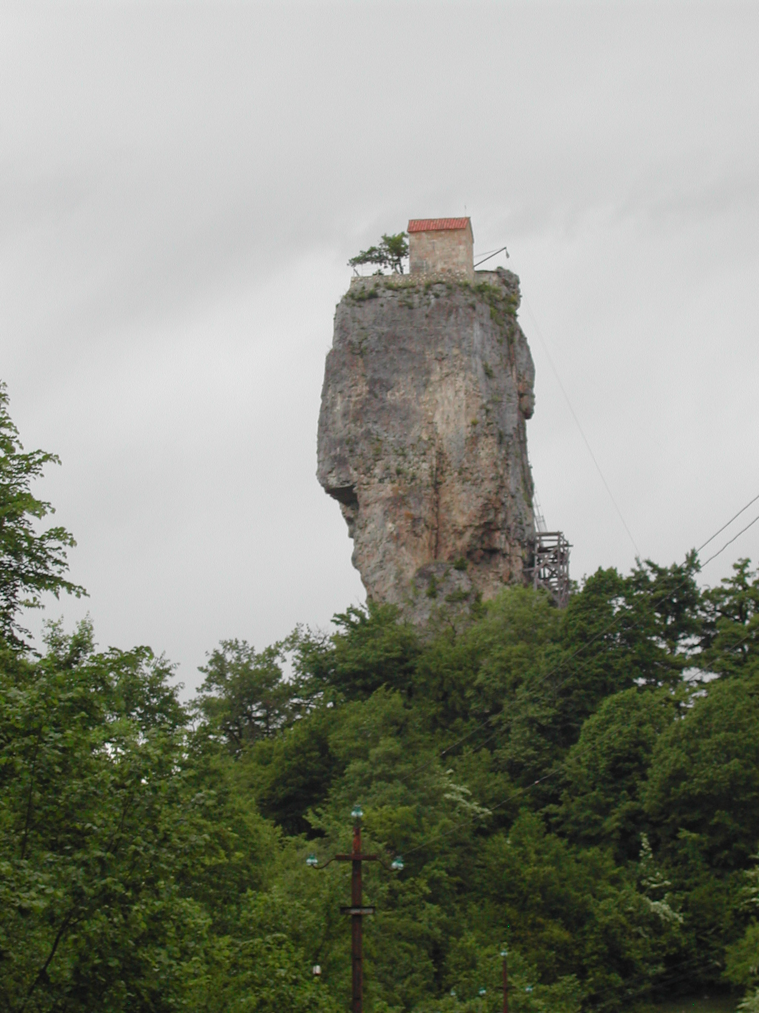 Katskhi column